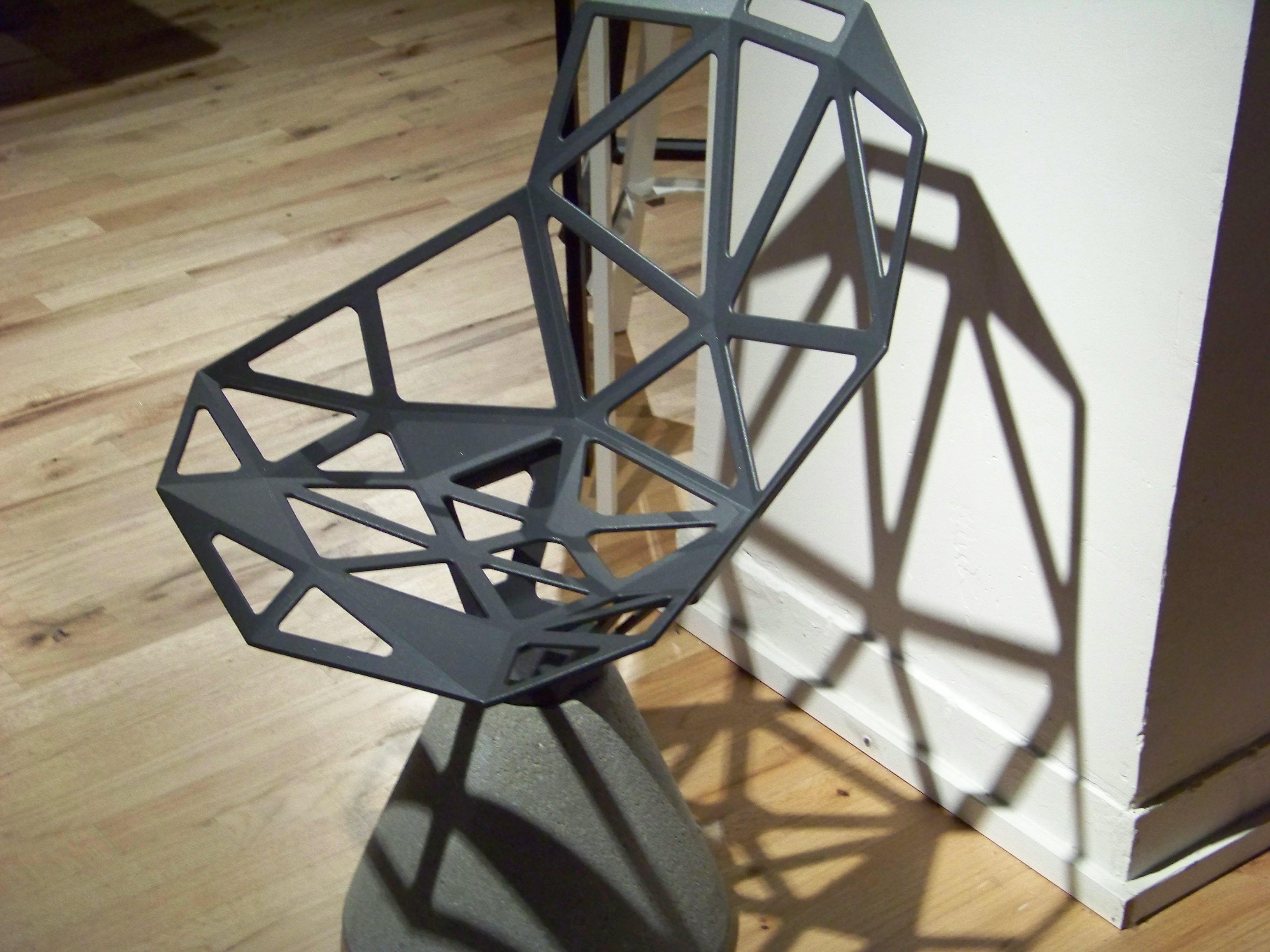 Konstantin Grcic: Chair One, 2004, aluminium, concrete base